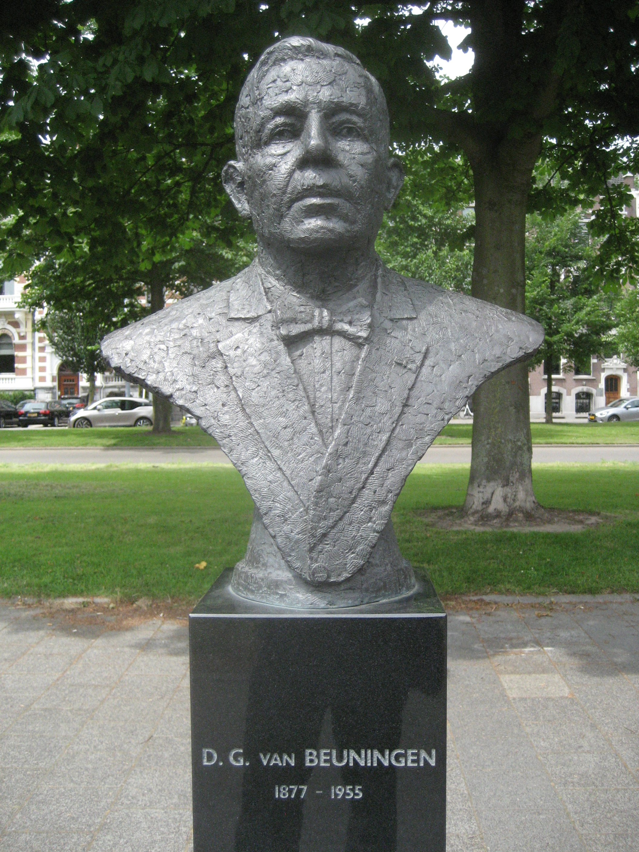 Bust of D.G. van Beuningen (1877-1955) at Westplein, Rotterdam. Sculptor: Robbert Donker (2013)